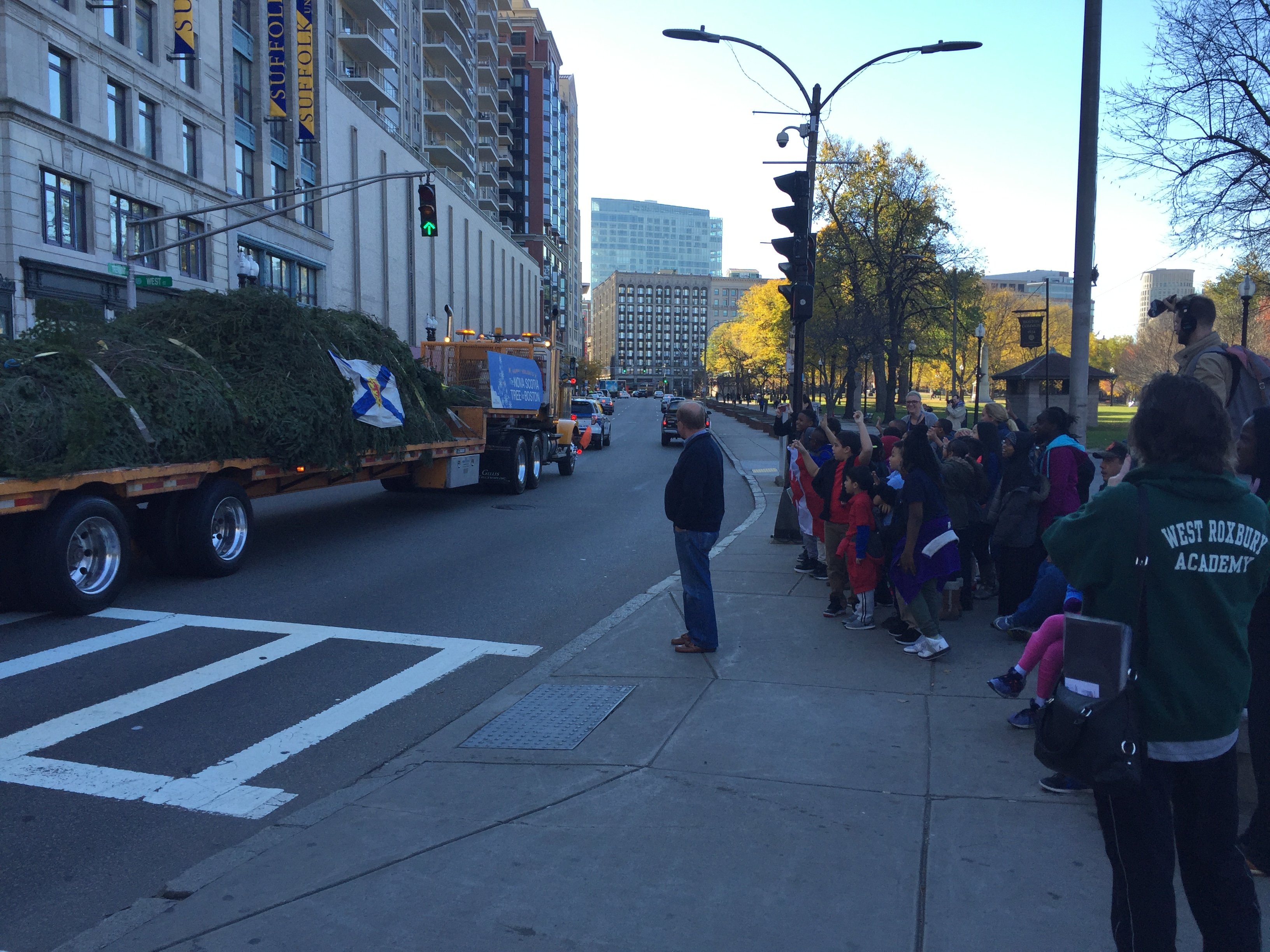 School children from the Mather Elementary School welcome the Boston Christmas Tree from Ainslie Glen, Cape Breton Island on Tremont Street.